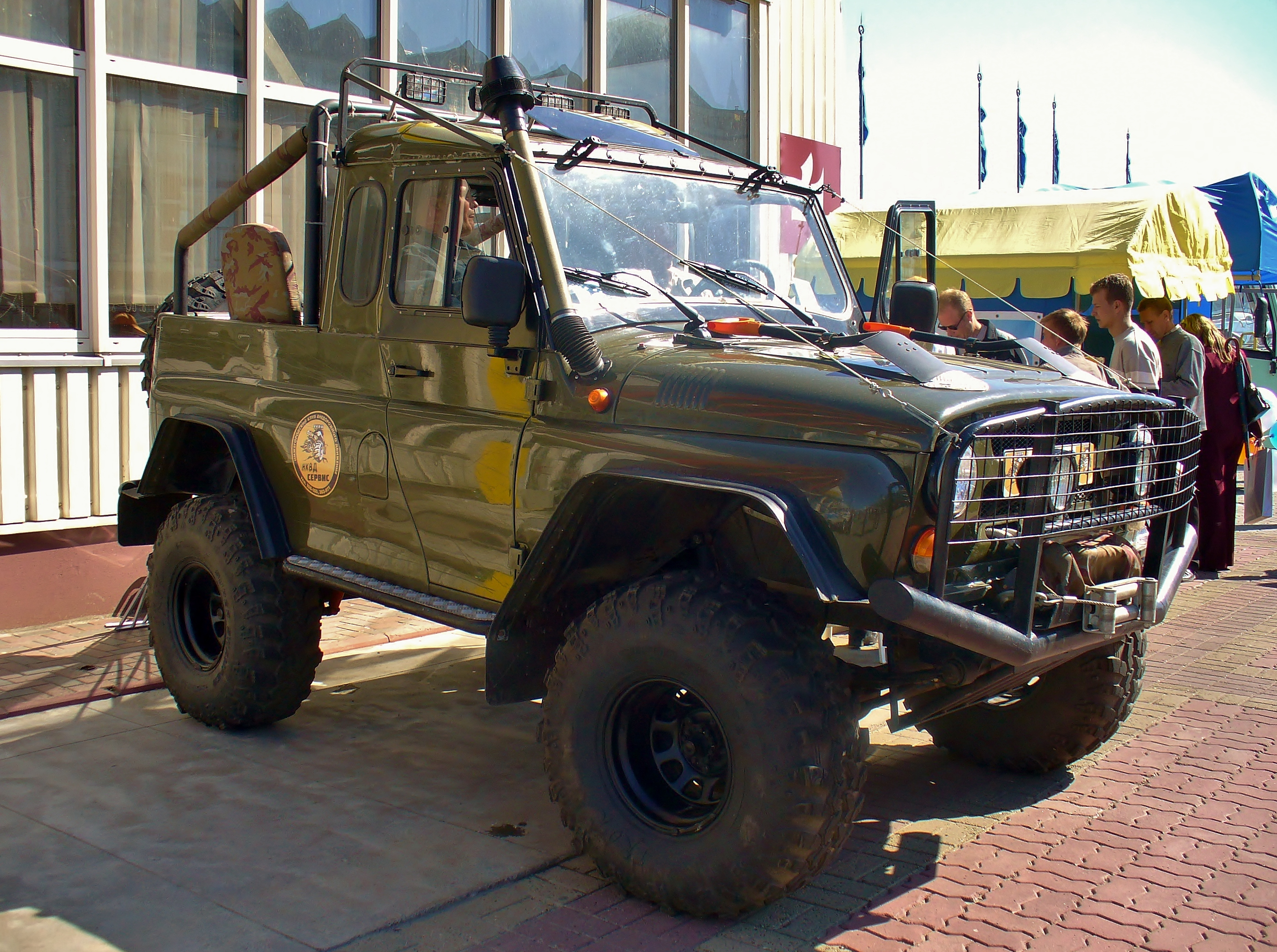 Тюнингованный УАЗ-31514